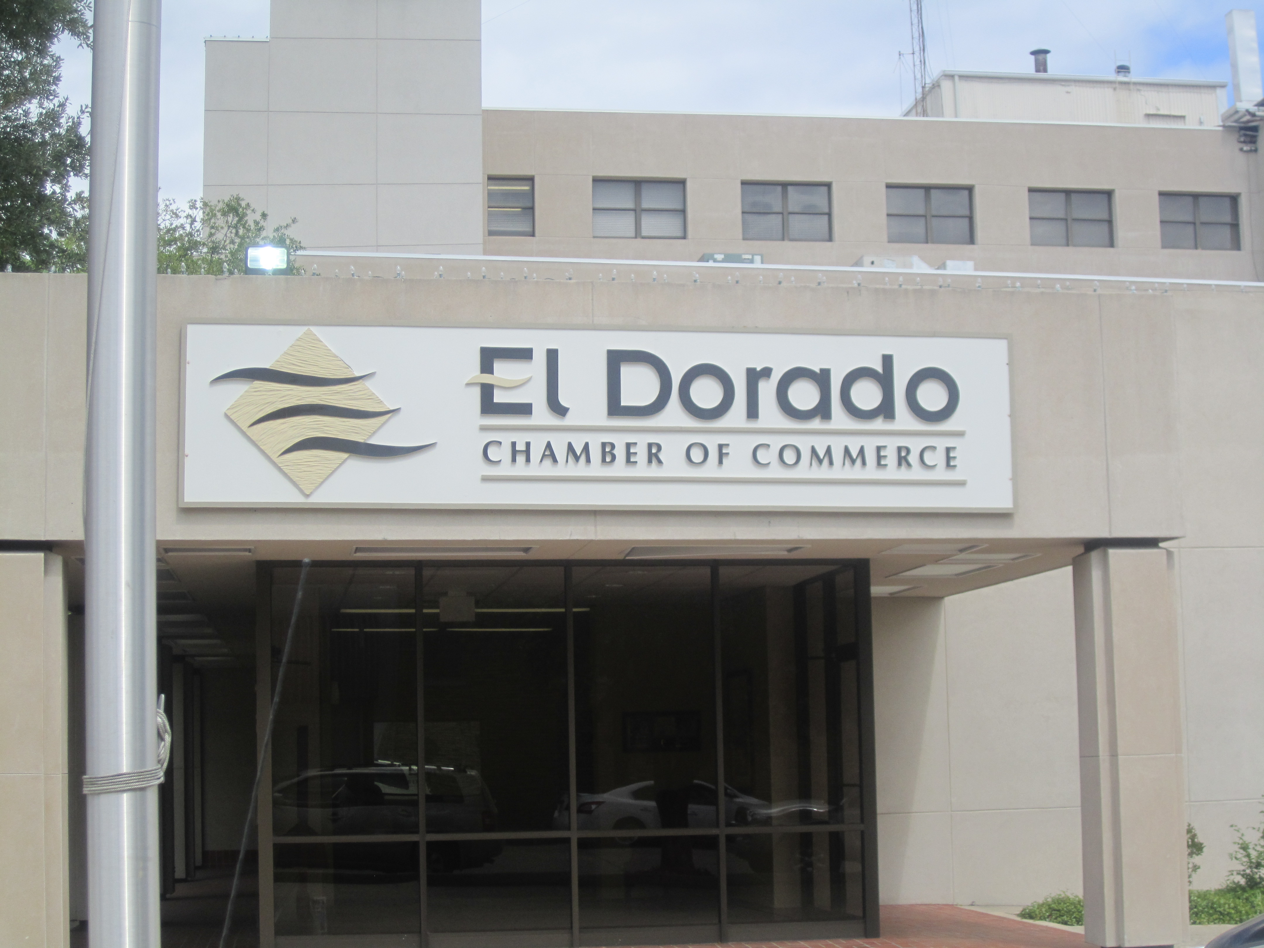 I took photo of Chamber of Commerce Building in El Dorado, AR, with Canon camera.